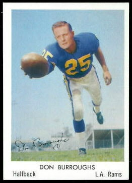 A 1959 promotional image of Los Angeles Rams player Don Burroughs.